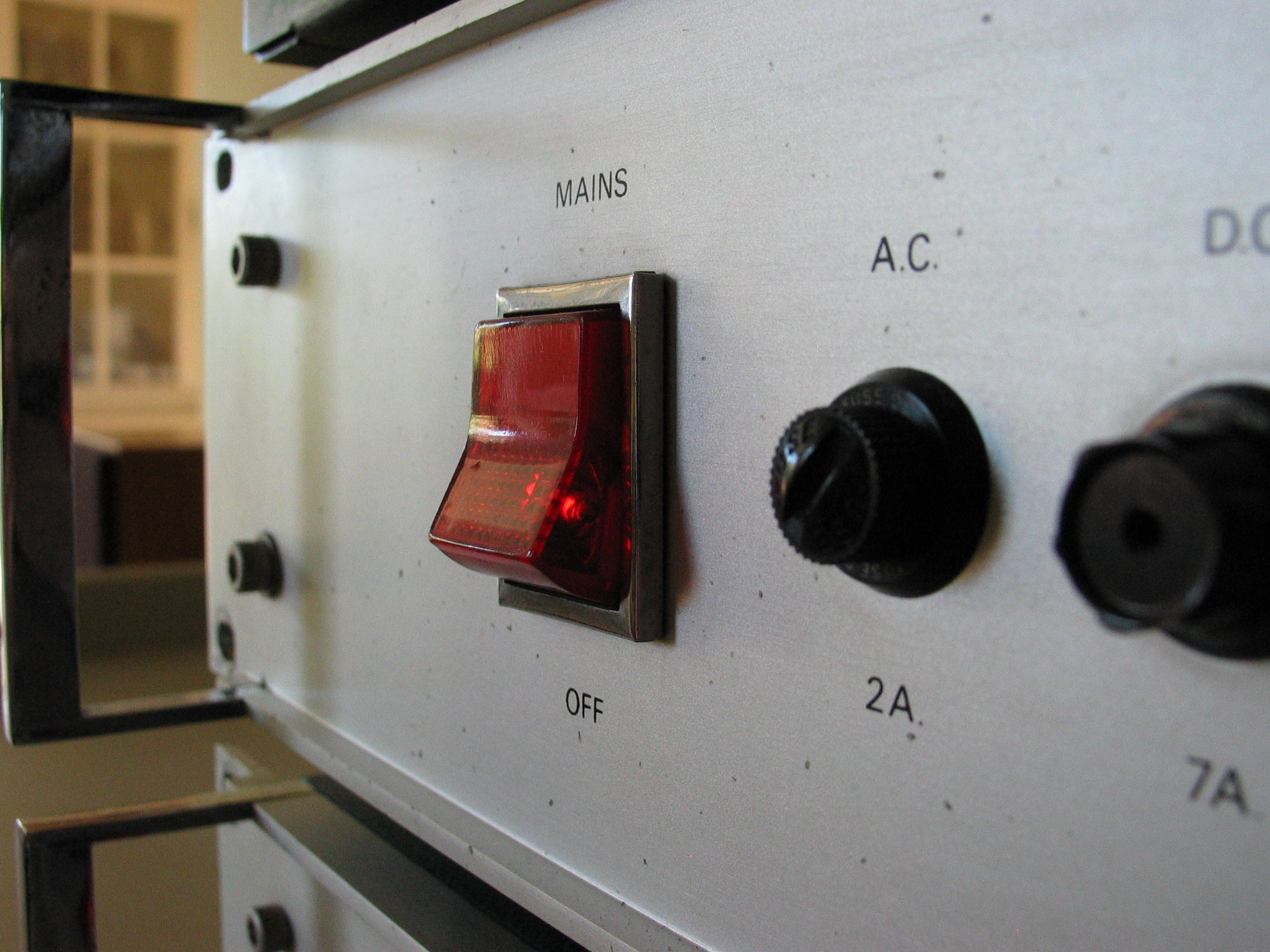 H-H Electronics TPA50 Professional Power Amplifier manufactured in Cambridge, UK during the 1970s. Photo shows close-up of front panel with power switch.